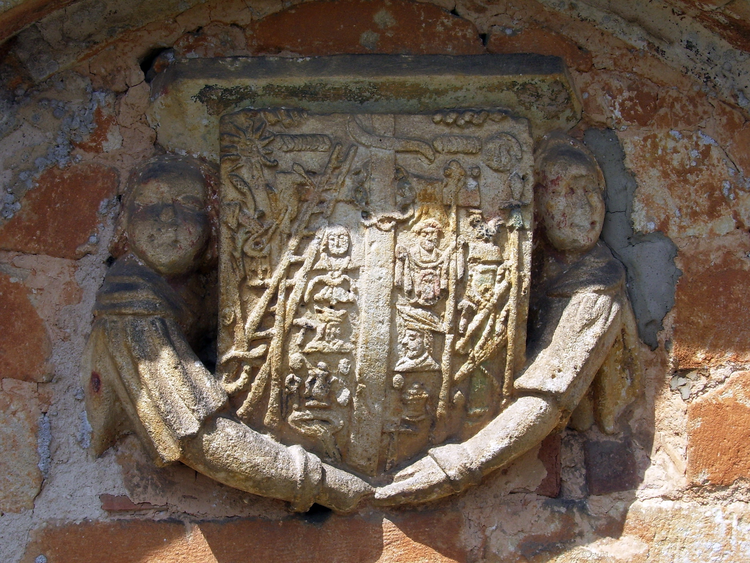 Arma Christi on the southern façade of the church Sainte-Catherine in La Neuville-du-Bosc, departement Eure, Normandie, France.